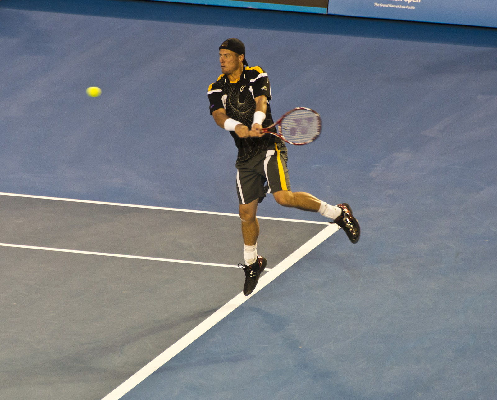 Lleyton Hewitt